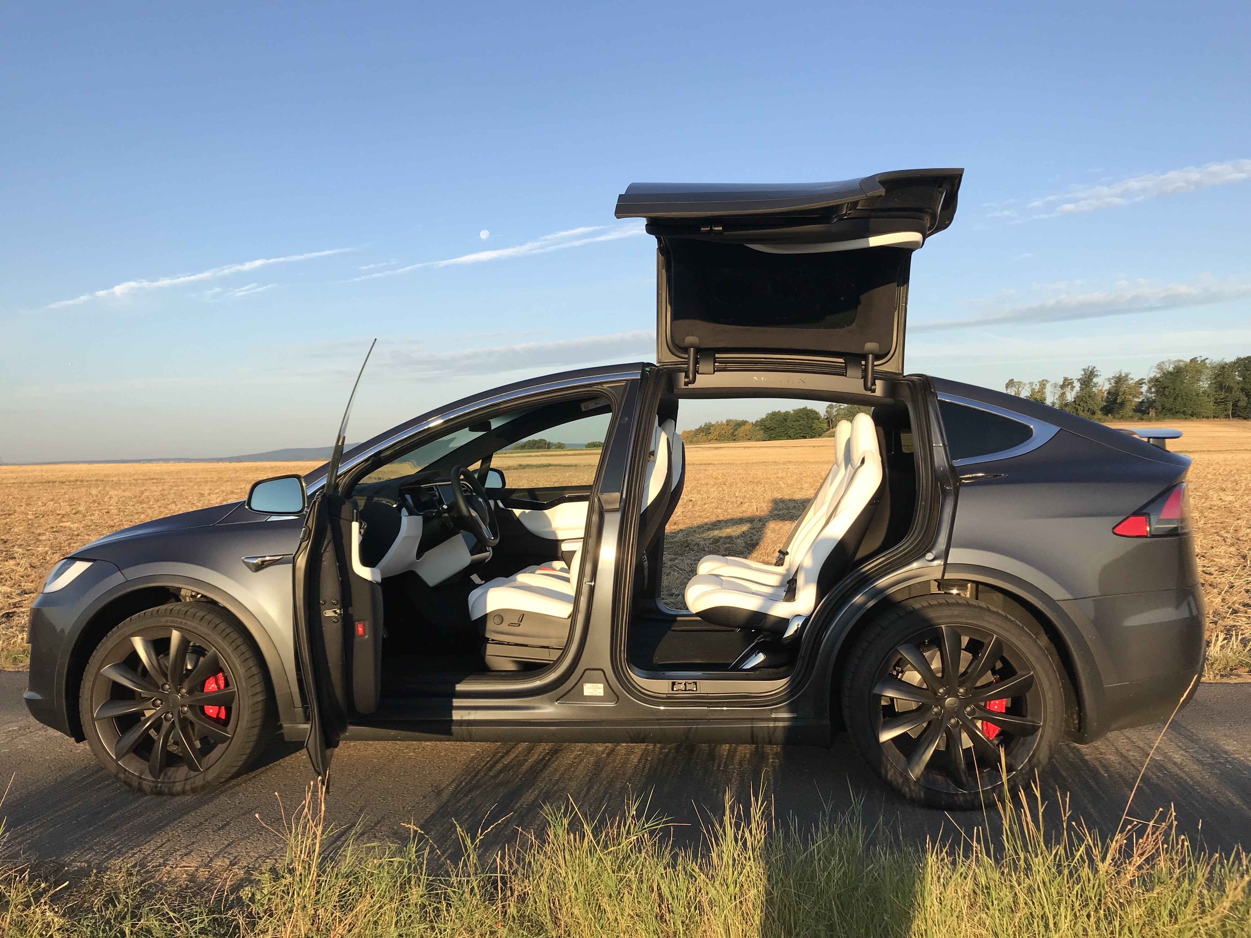 Tesla Model X P100DL with open doors